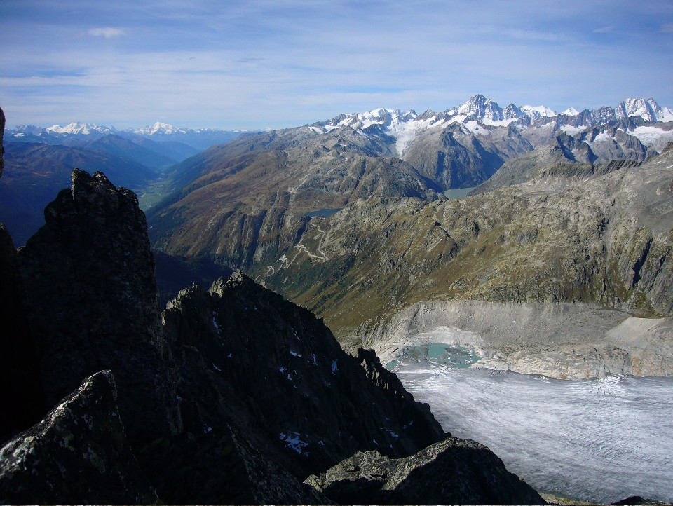 View from Klein Furkahorn.